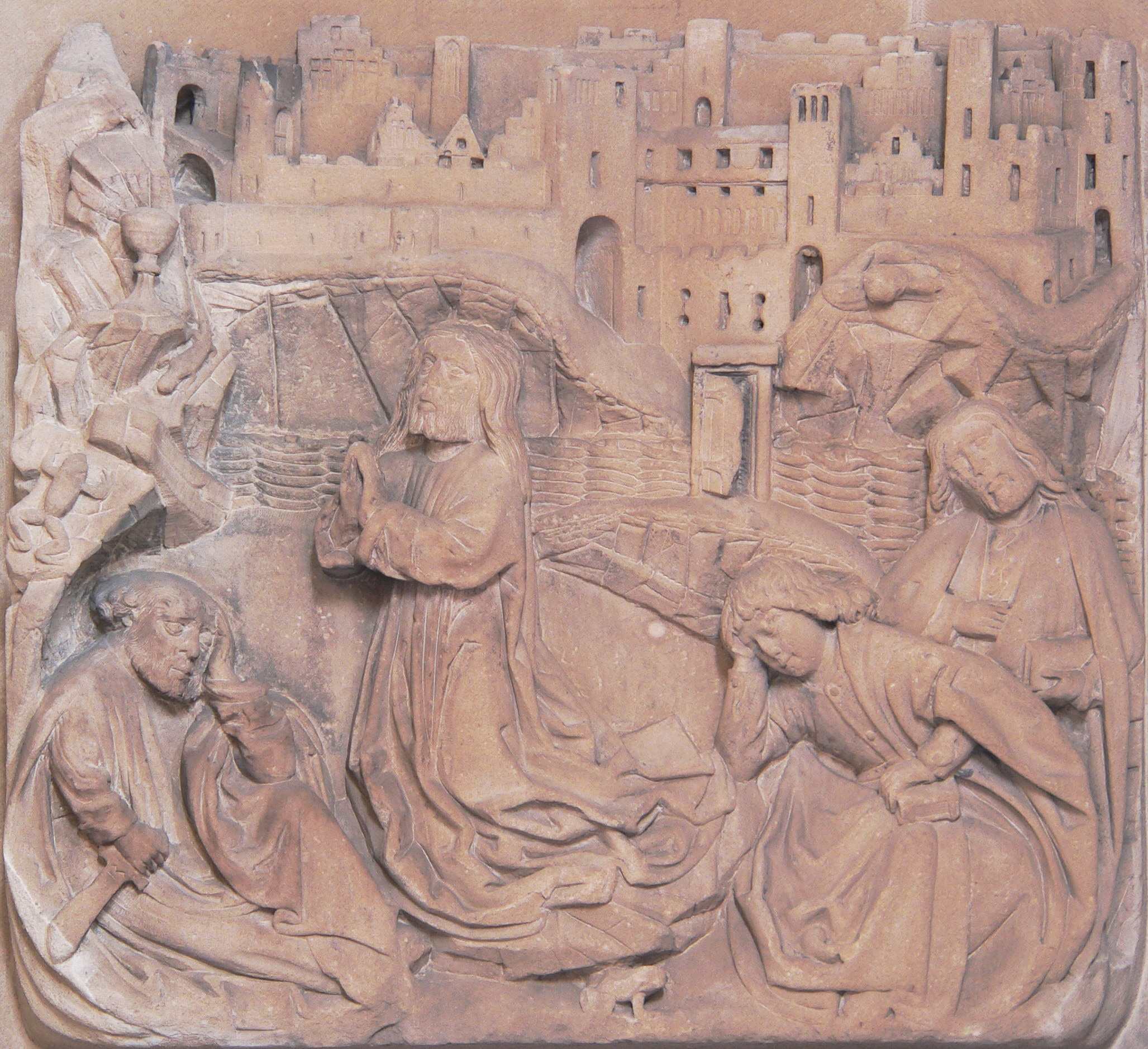 „Christ on the Mount of Olives“ in the North-Choir of the Church Kilianskirche of Heilbronn, Germany